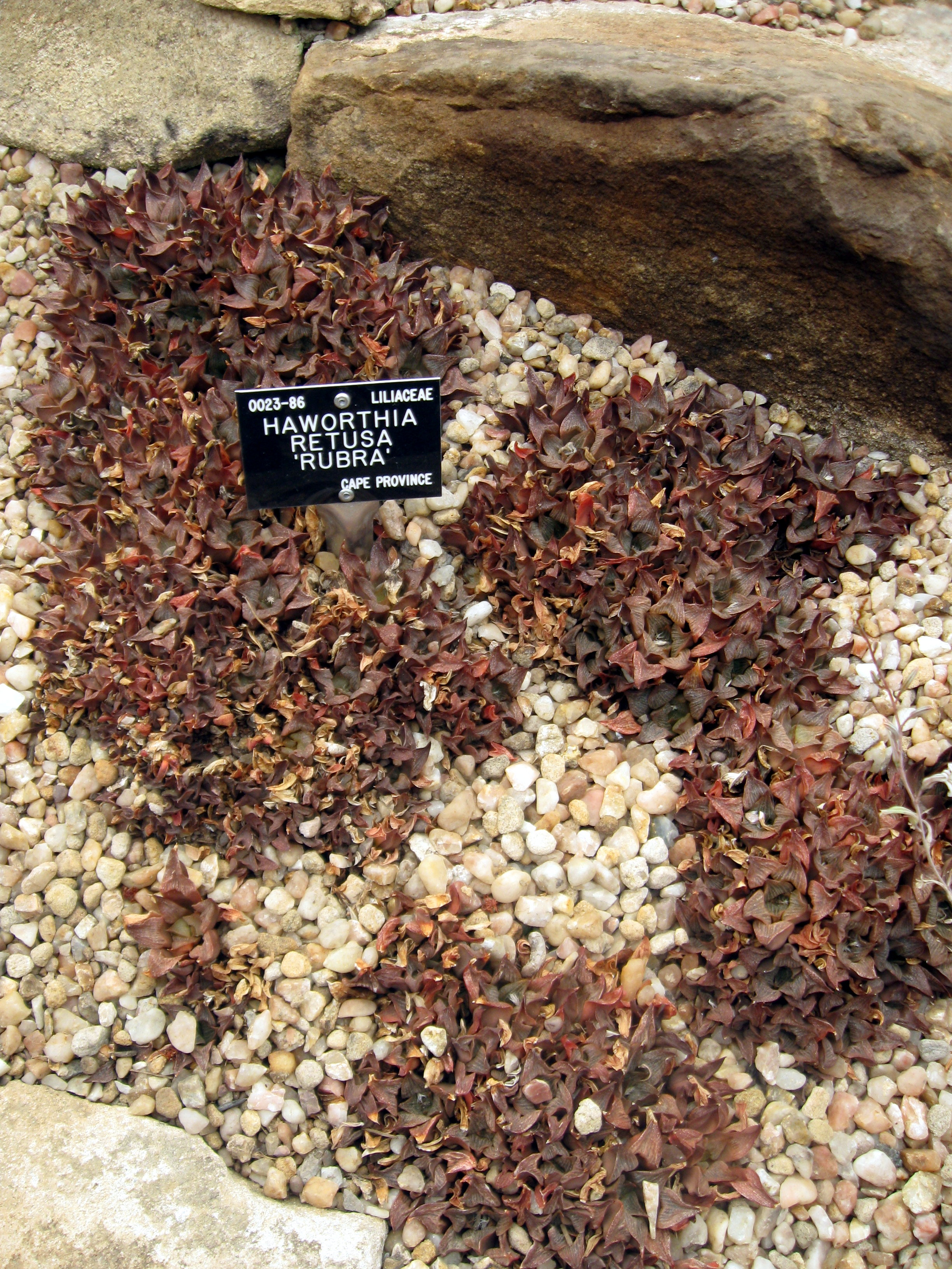 Haworthia retusa photographed at Durham University Botanic Garden on 3 June 2009.